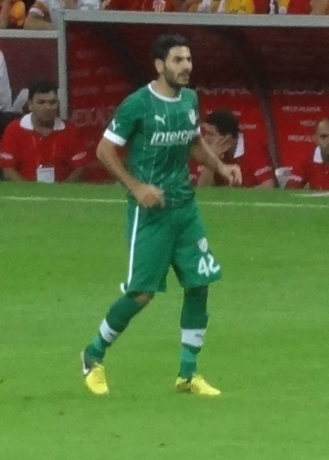 Hakan Aslantaş